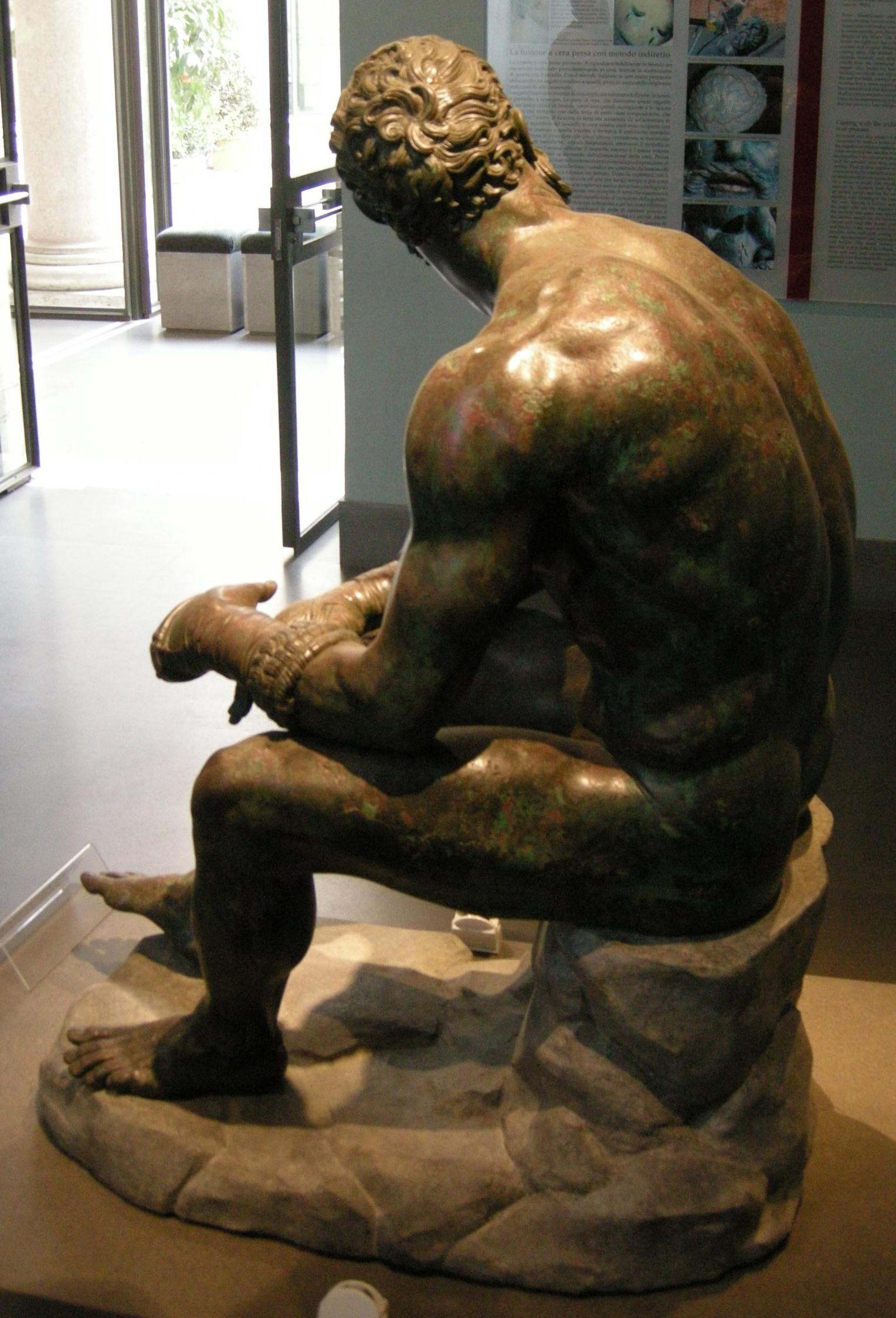 So-called “Thermae boxer”: athlete resting after a boxing match. Bronze, Greek artwork of the Hellenistic era, 3rd-2nd centuries BC (the boulder is modern and replicates the ancient one).